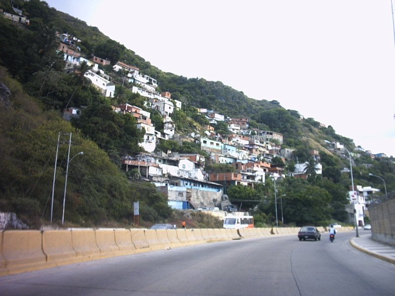 Shanty town in Vargas state